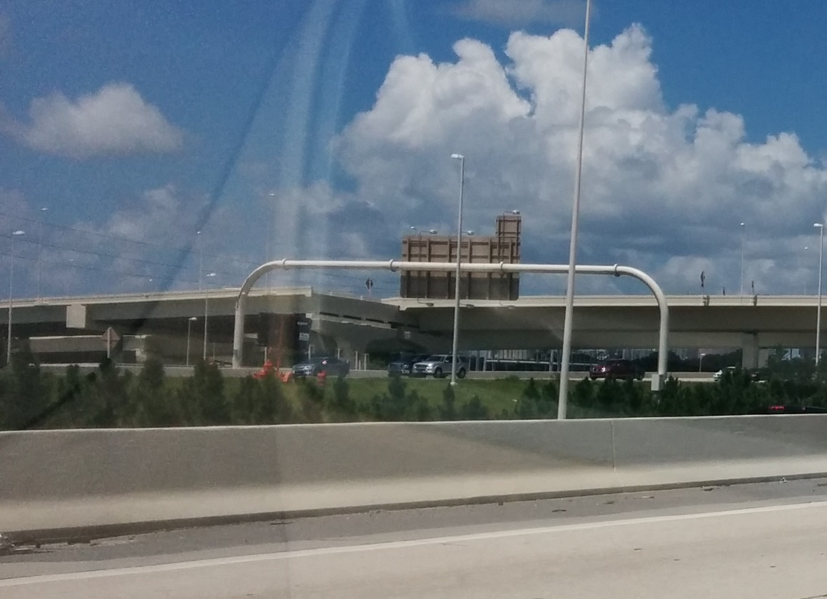 A stub ramp on the north end of the I-4/Selmon Expressway Connector, viewed while traveling on westbound Interstate 4. FDOT has plans to add express toll lanes in the median of I-4 in the future (no sooner than mid-2020s). When those lanes are added, the two existing ramps that connect in the median of I-4 will connect to the express lanes and the stub will connect to ramps to the outside edge of I-4 for the non-tolled lanes.